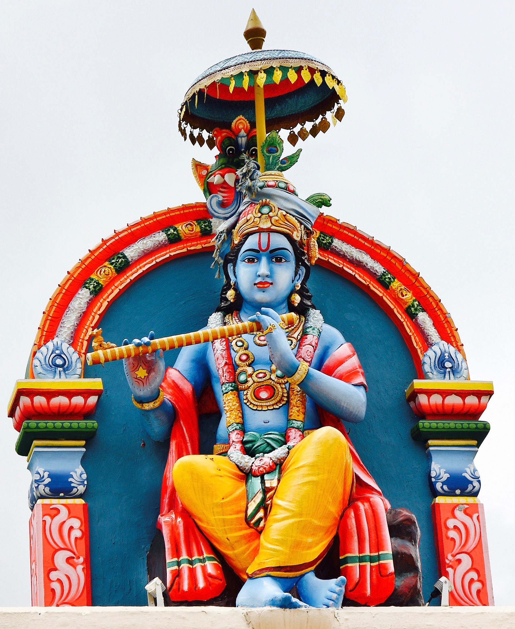 Krishna is a major pan-Hindu deity, particularly important to the Vaishnavism tradition. He is the god of compassion, tenderness and love in Hinduism, his life legends have inspired numerous performance art repertoires, and the Bhagavad Gita is attributed to him. This image is a derivative work on the following wikimedia image available under creative commons license: Sri Mariamman Temple Singapore 2 amk.jpg